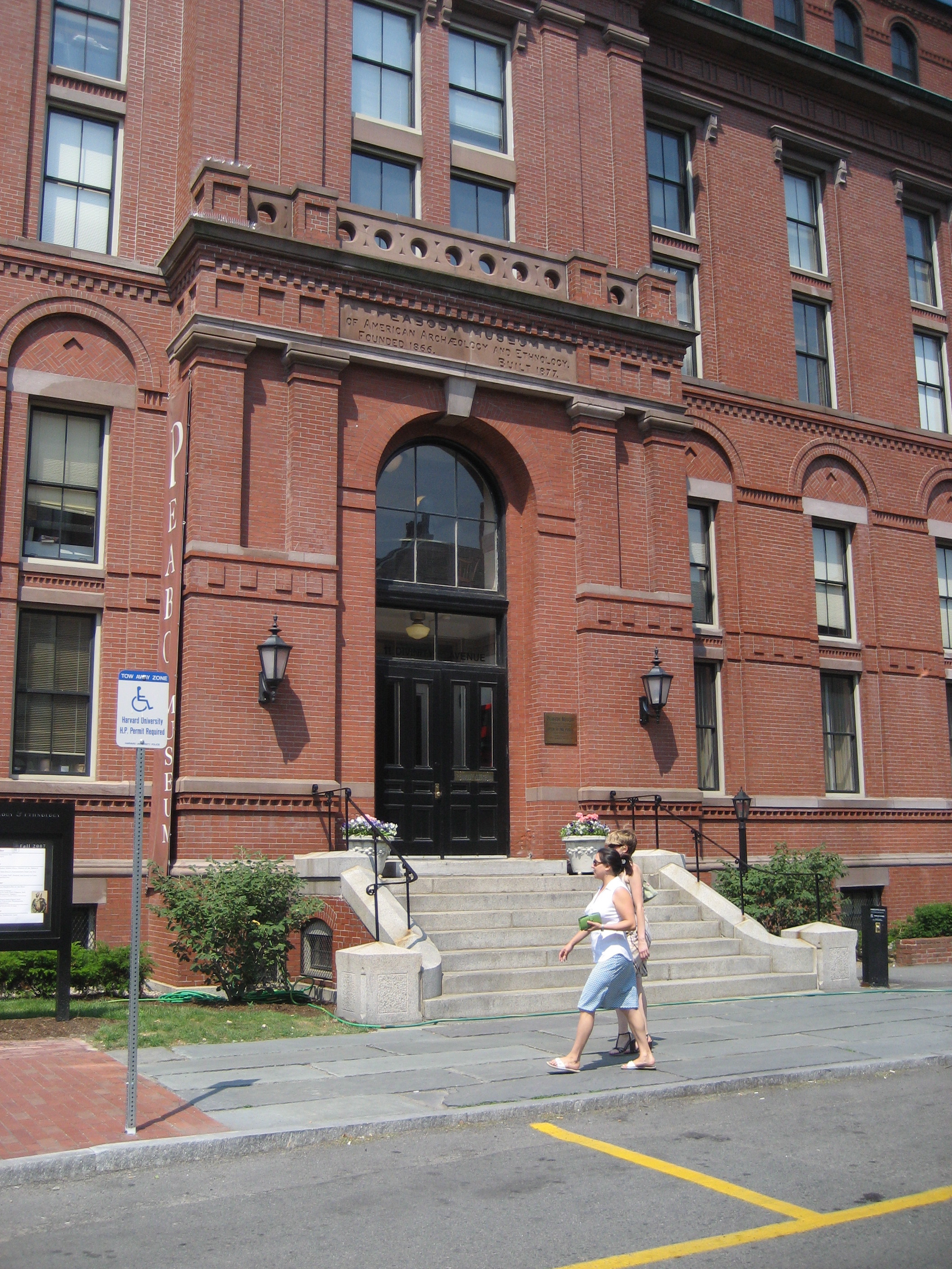 Harvard University, Cambridge, Massachusetts. Entrance to Peabody Museum of Anthropology & Ethnology